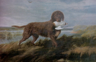 "Water Spaniel" painting by John Carlton (1864)